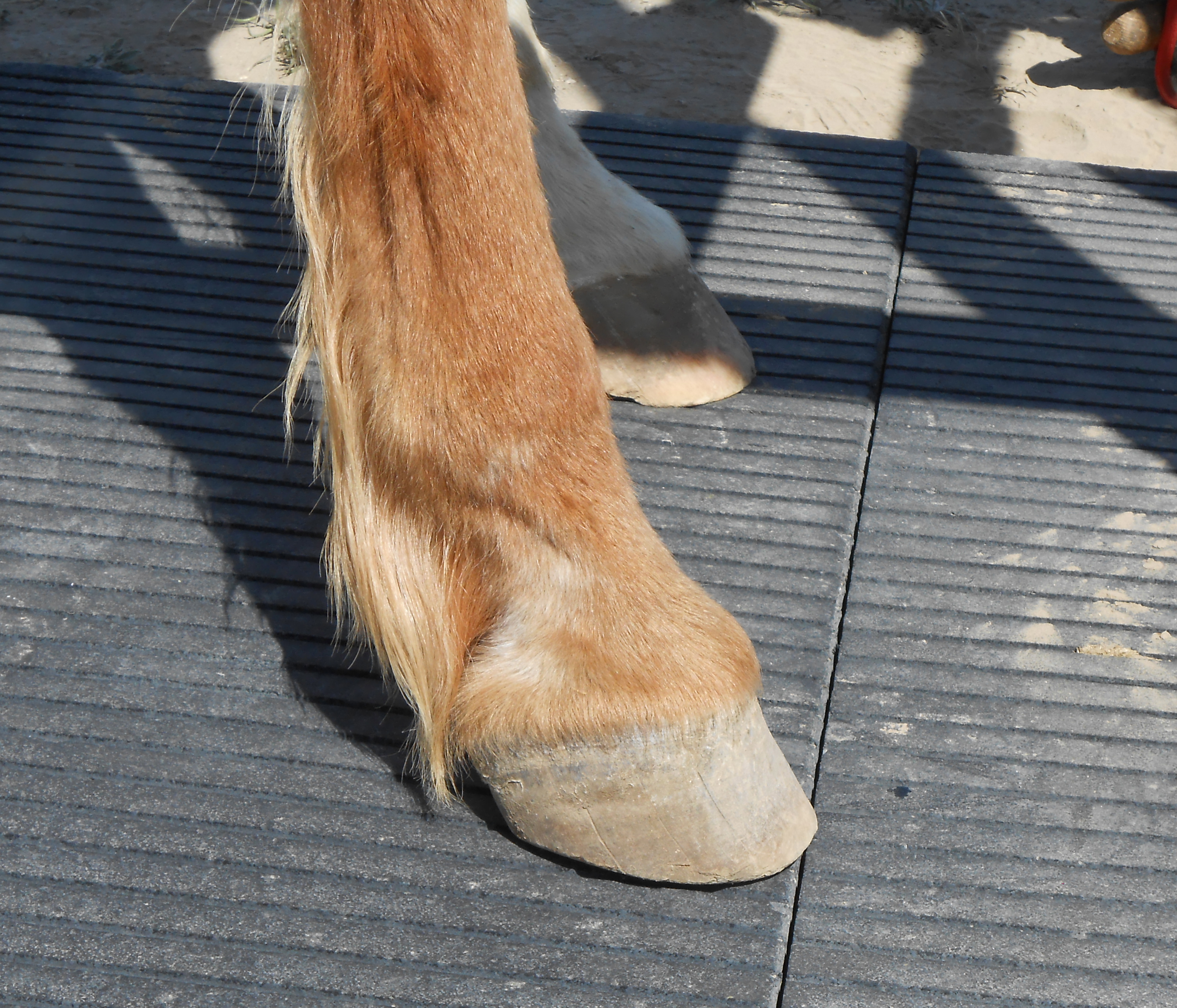 Hoof of a chestnut-colored horse. Dark, but not as dark as a horse hoof of a horse with a black coat color. Hoof is recently trimmed and horse is older, but healthy. Horse has a bit of long, untrimmed hair at the back of the fetlock, but this is not "feather". Image is of right front leg.